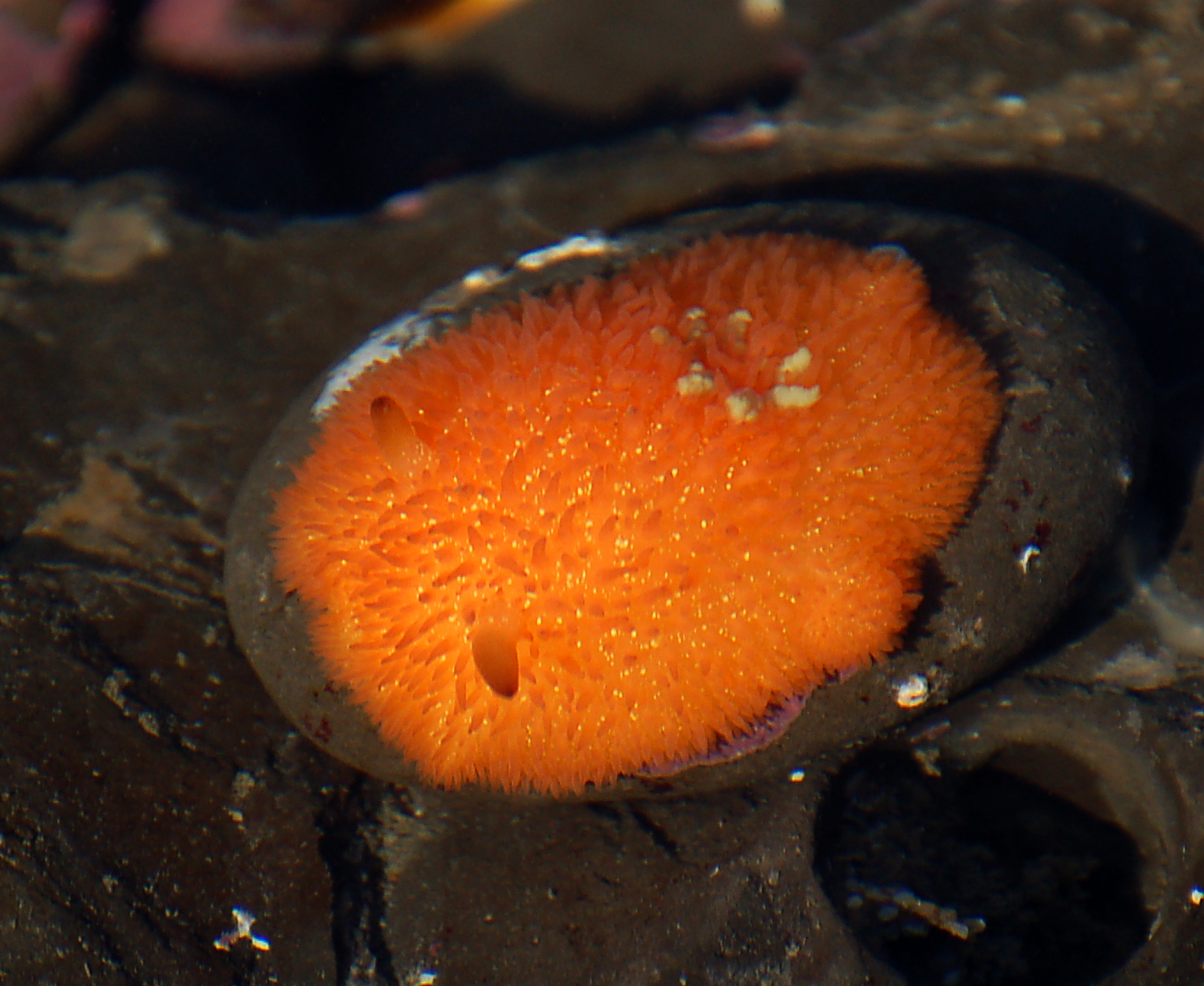 Yellow Dorid, Acanthodoris luteaOrange Peel Sea Slug